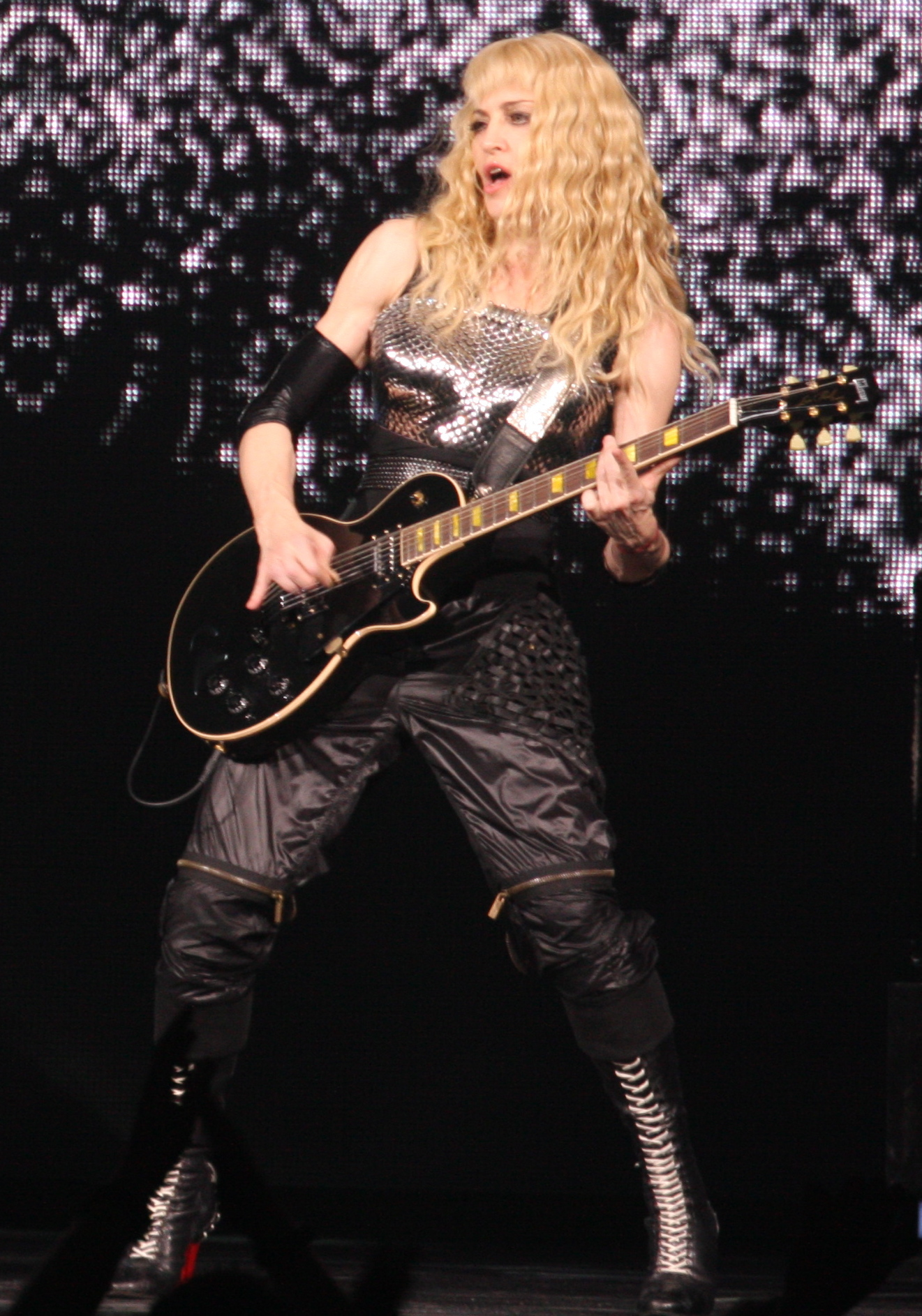 Hung Up Sticky & Sweet Tour 2008